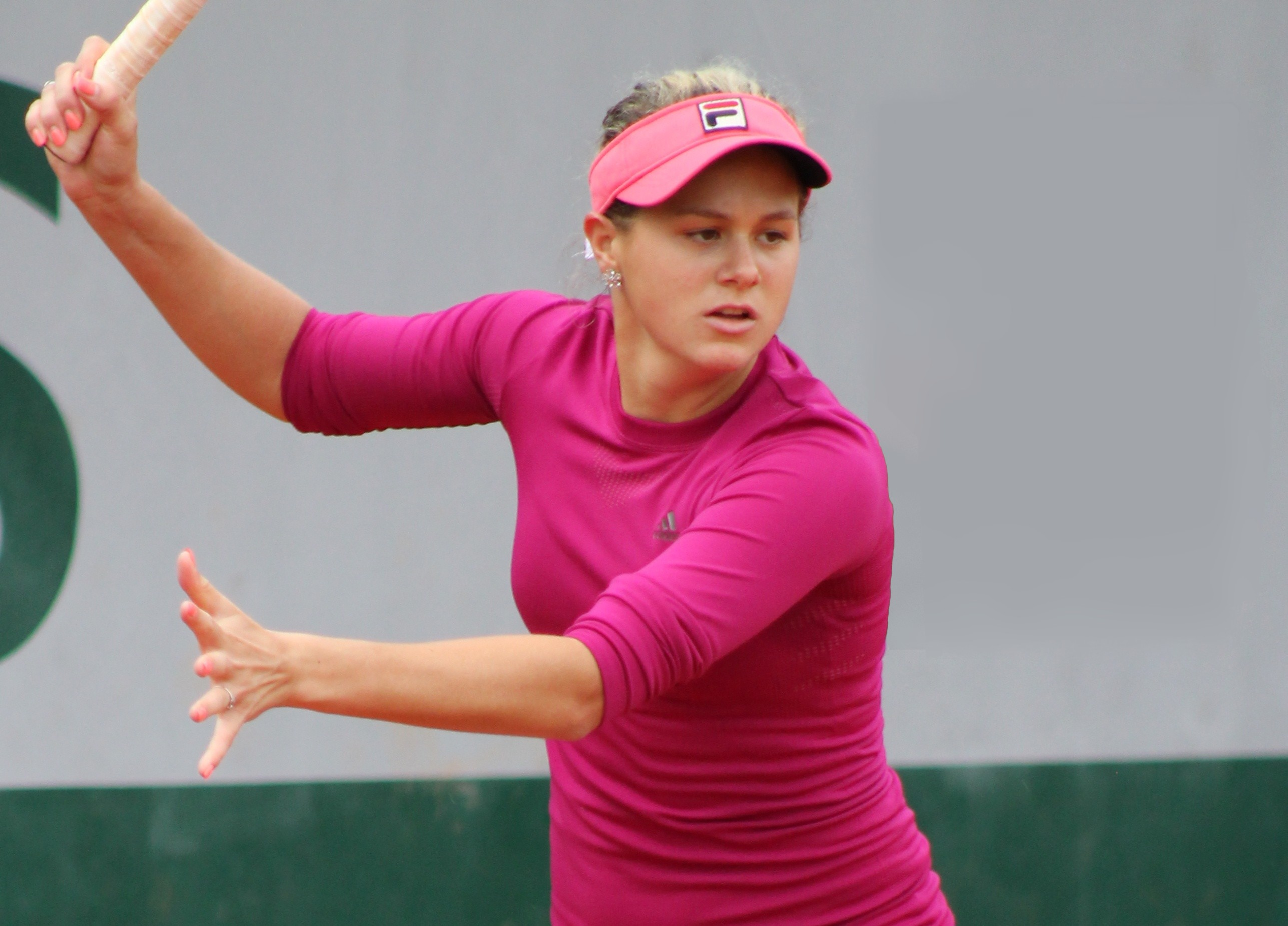 Jana Čepelová, French Open 2013